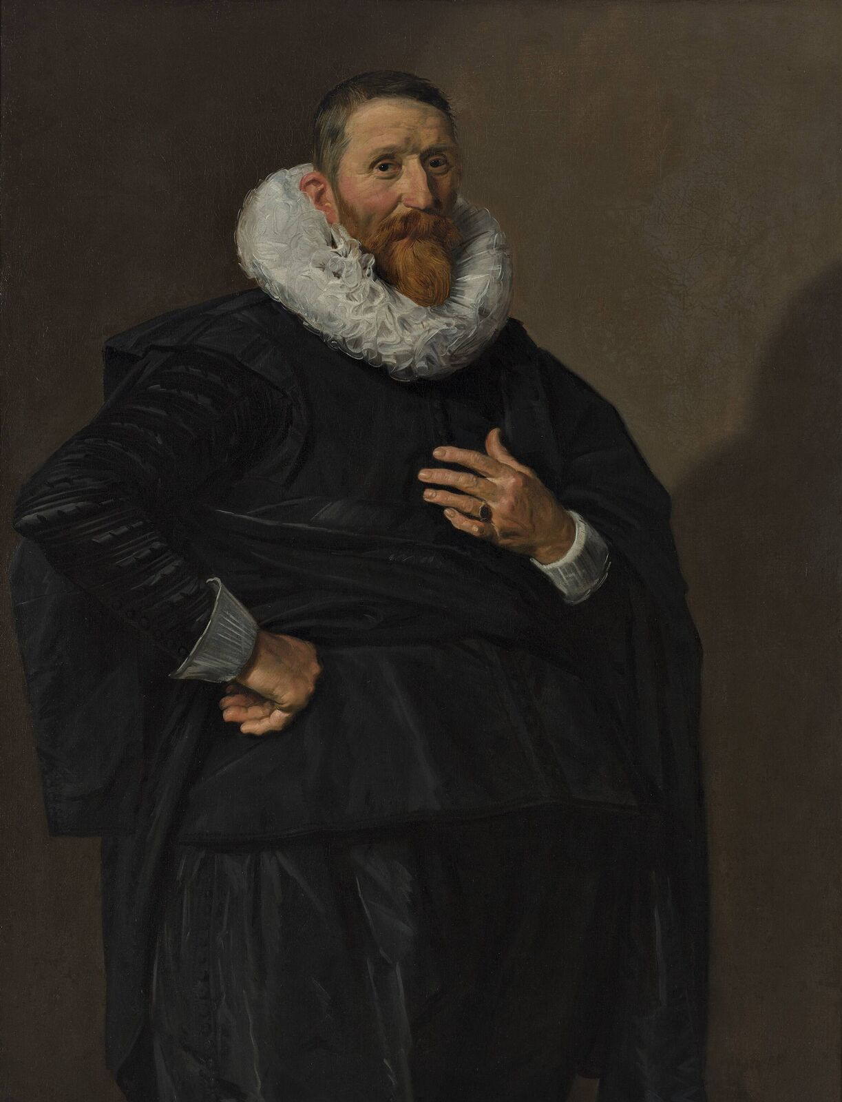 Possibly pendant of a portrait of a woman, formerly identified as Hylck Boner (Frick Collection, New York).